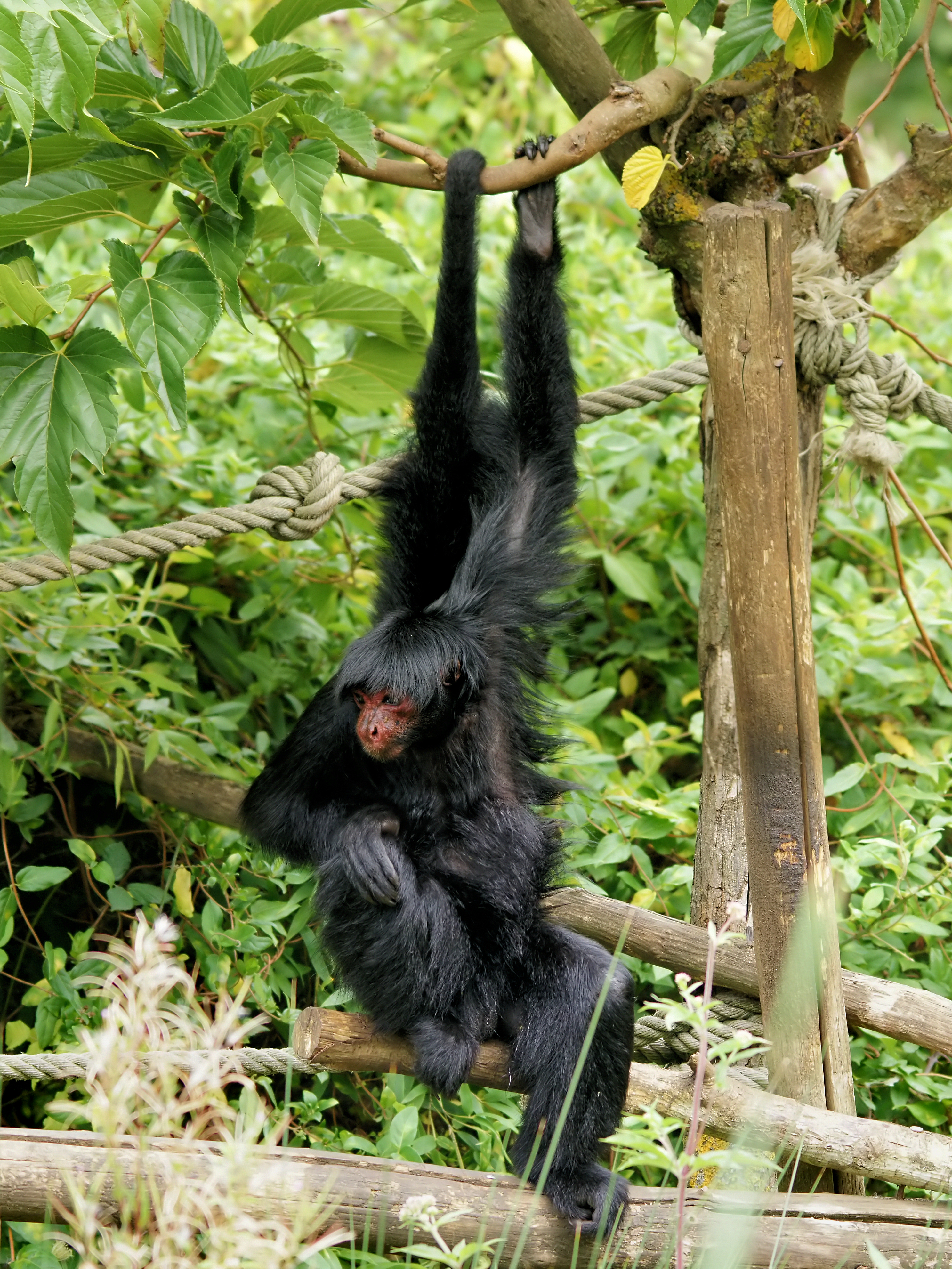 Red-faced Spider Monkey at La Vallée de Singes, at Romagne (Vienne, Poitou-Charentes), France.